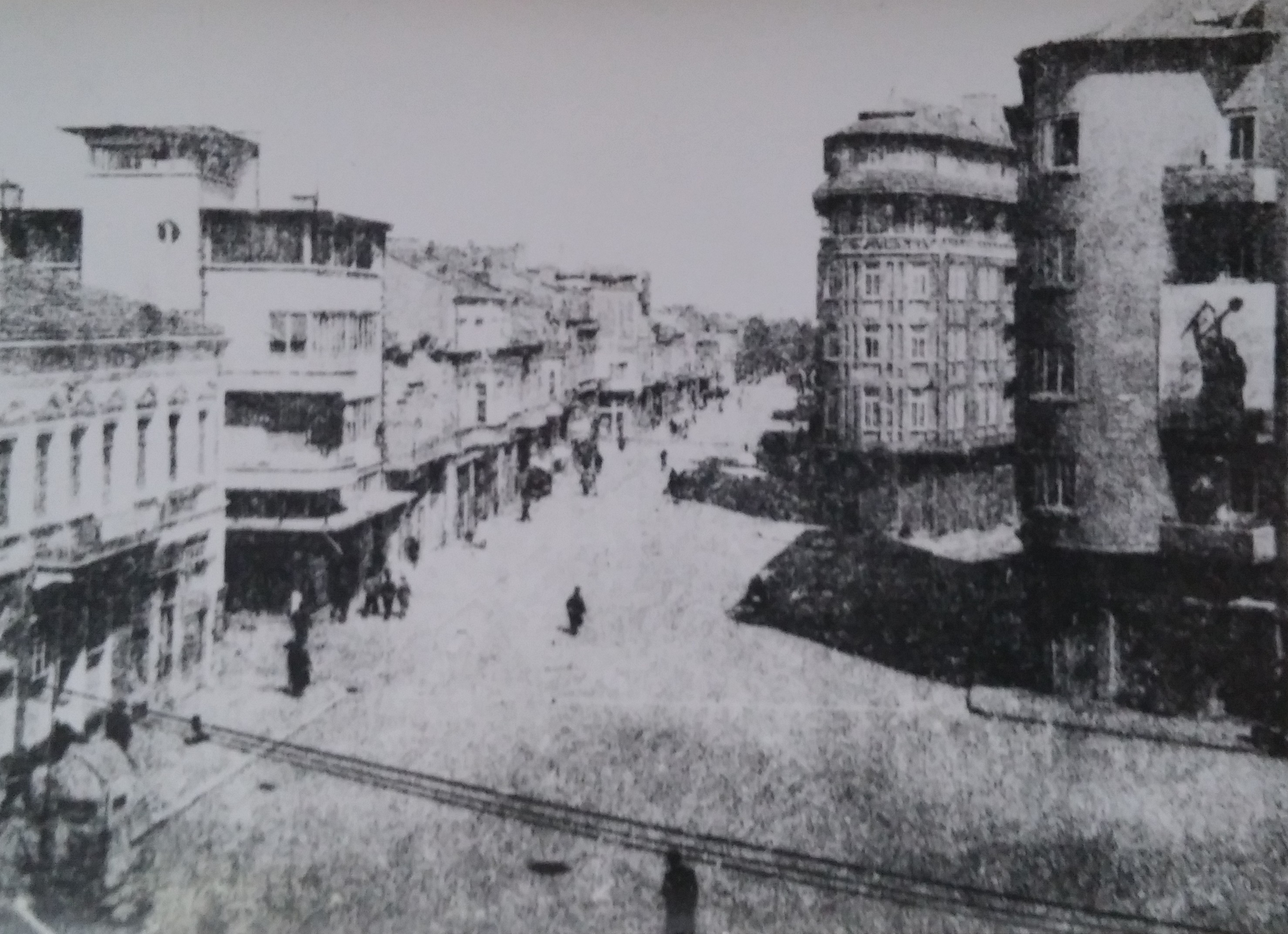 Varna. Photos of "Knyaz Boris" boulevard.